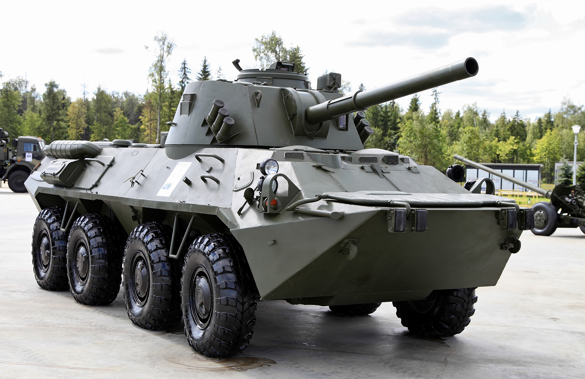 120mm self-propelled gun 2S23 Nona-SVK